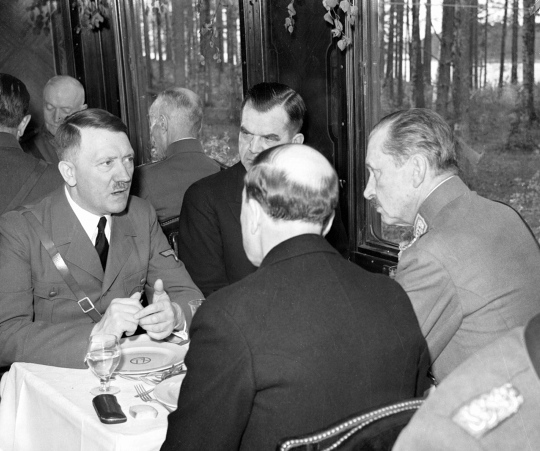 File photo shows Adolf Hitler (left), the dictator of Nazi-Germany, talking privately to C. G. E Mannerheim (right), commander of Finland s forces in World War II during a six-hours visit in Kaukopää (ei Immola) on the occasion of his Finnish ally s 75th birthday 04 June, 1942. The microphones that secretly taped their private conversation were placed just outside the picture above Mannerheim's head. To Hitler's left is Finnish prime minister Jukka Rangell, while the Nordic country's president Risto Ryti has his back towards the camera. The birthday celebration was held in a train due to security reasons. The tape is a treasure trove for actors rendering the intimate side of the Nazi dictator. It was for instance recently used by actor Bruno Ganz, who has won praise for his portrayal of Hitler in the newly released German movie "The Downfall".